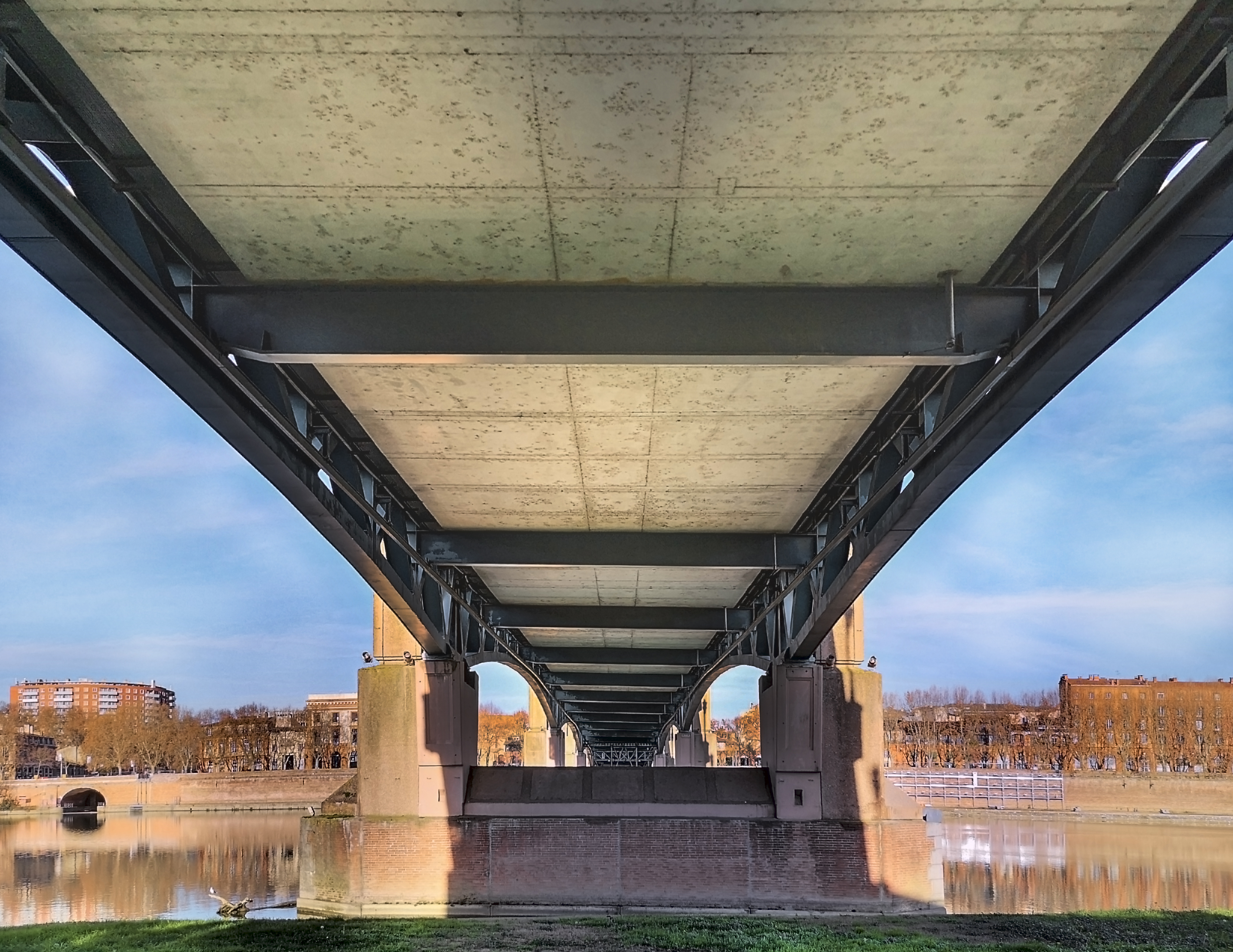 The Saint-Pierre bridge in Toulouse, seen from the underside of the concrete deck.